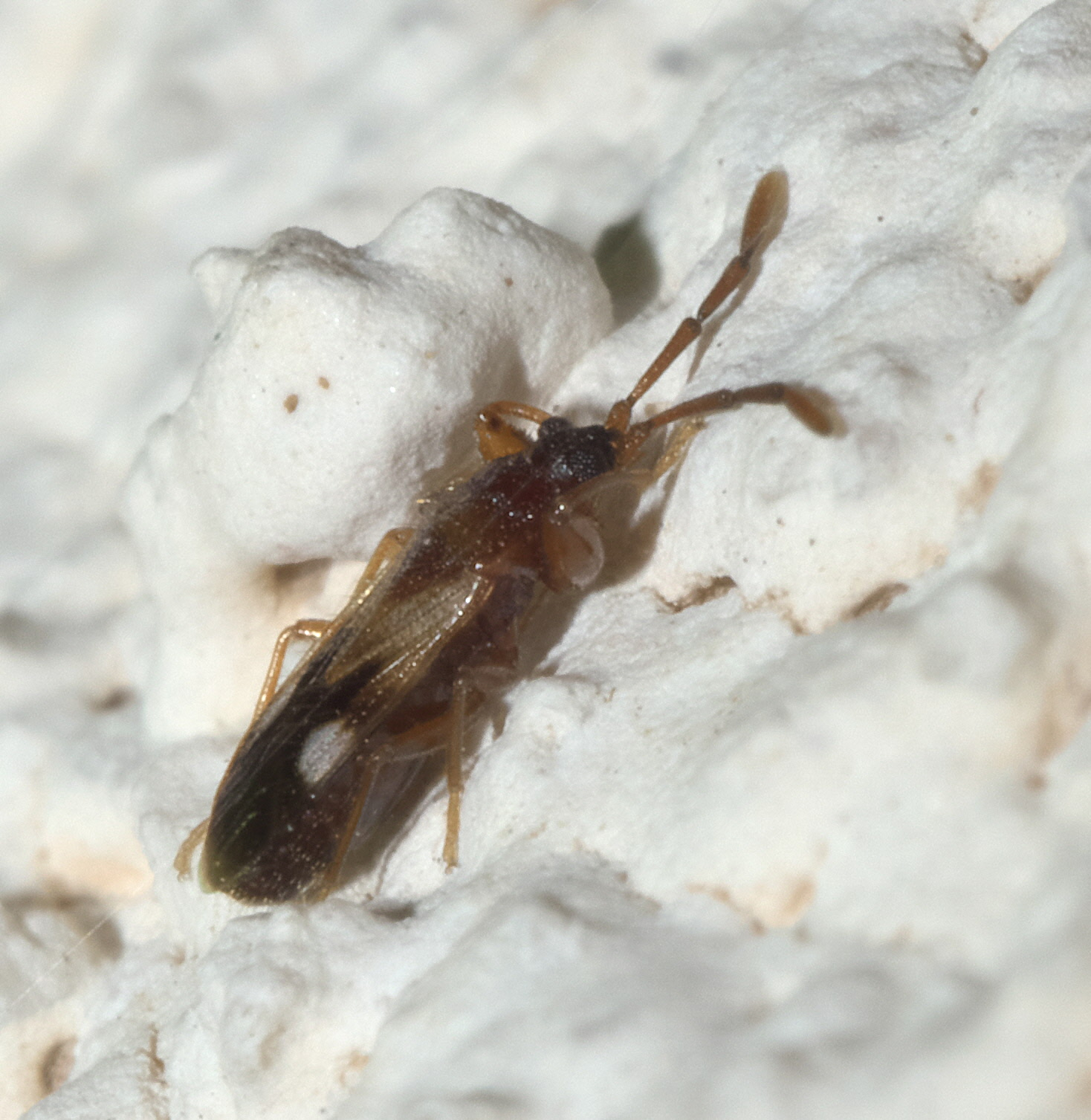 Tempyra biguttula, Family: Dirt-colored Seed Bugs, Size: 3.1 mm, ID Confidence: 98